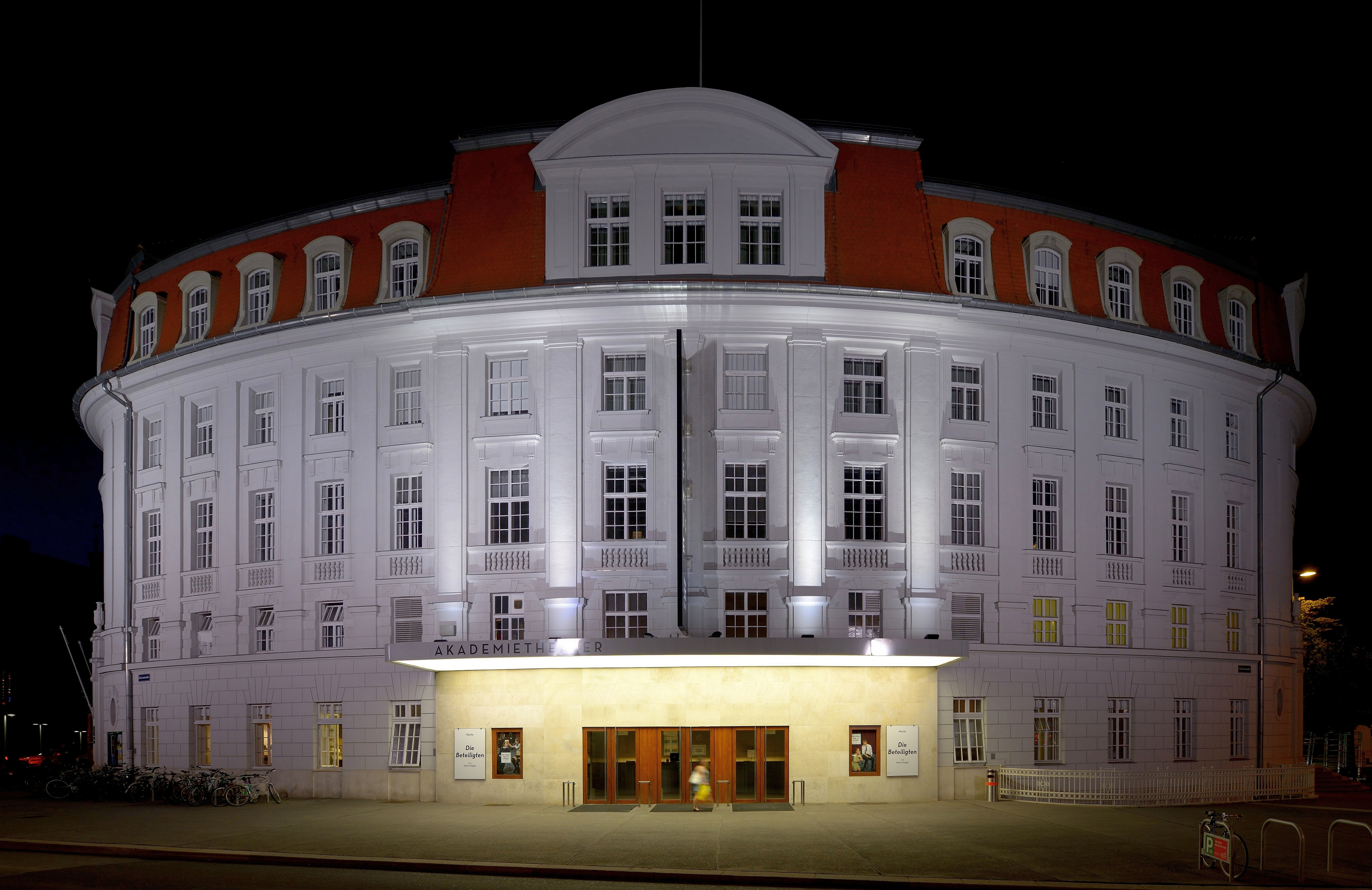 University of Music and Performing Arts (former main building) and Akademietheater (Part of Burgtheater)